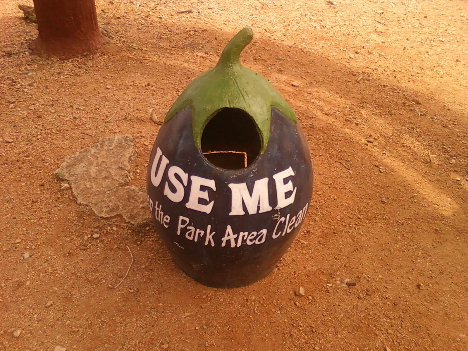 dustbin in the shape of brinjal at Kambalakonda eco park in Visakhapatnam